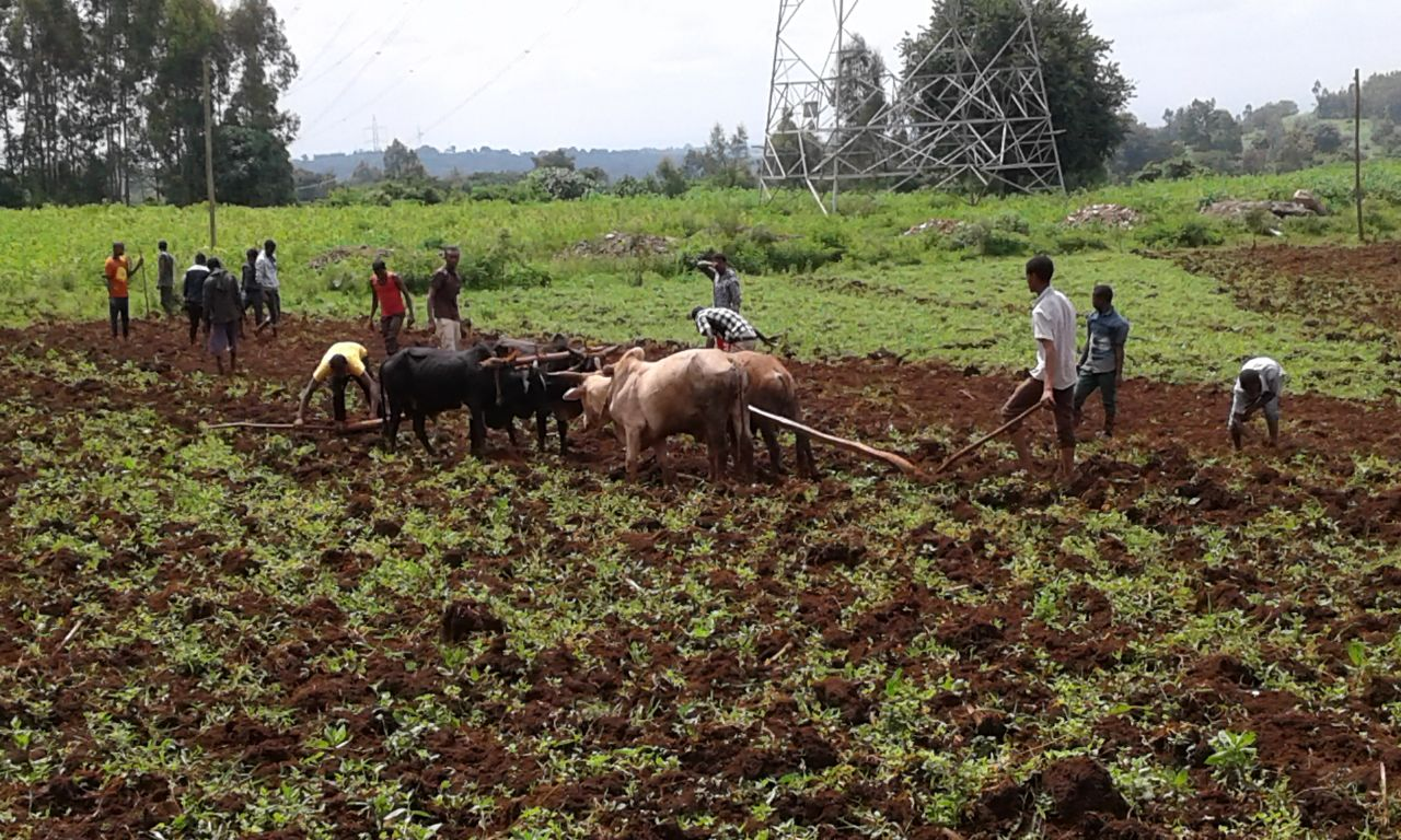 This is an image with the theme "Play" from: Ethiopia